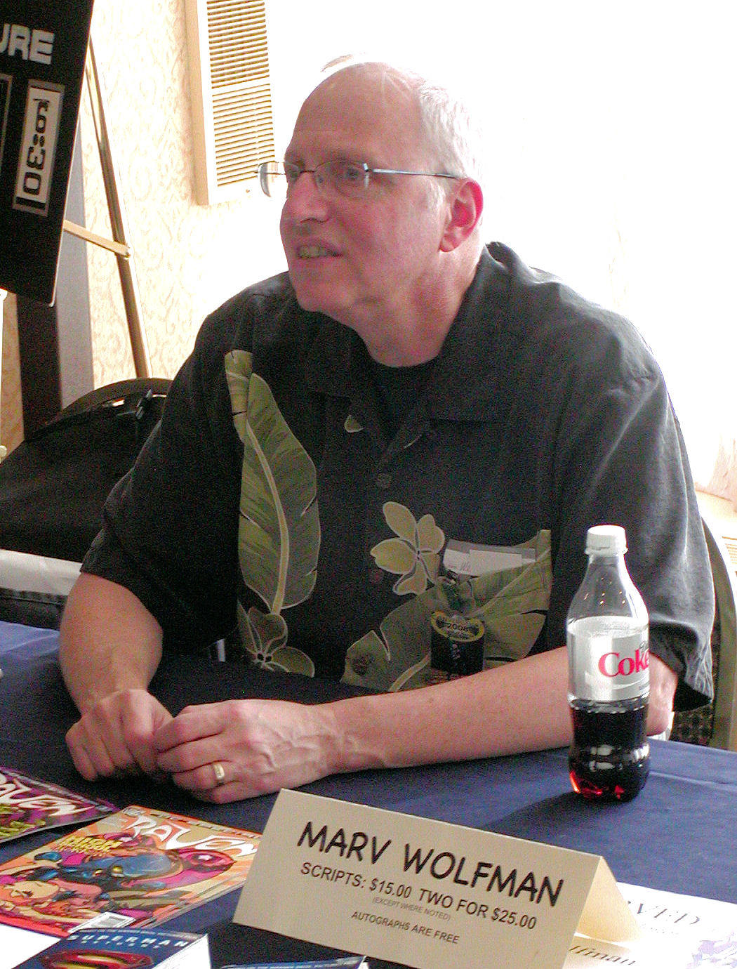 Marv Wolfman, a writer of comic books